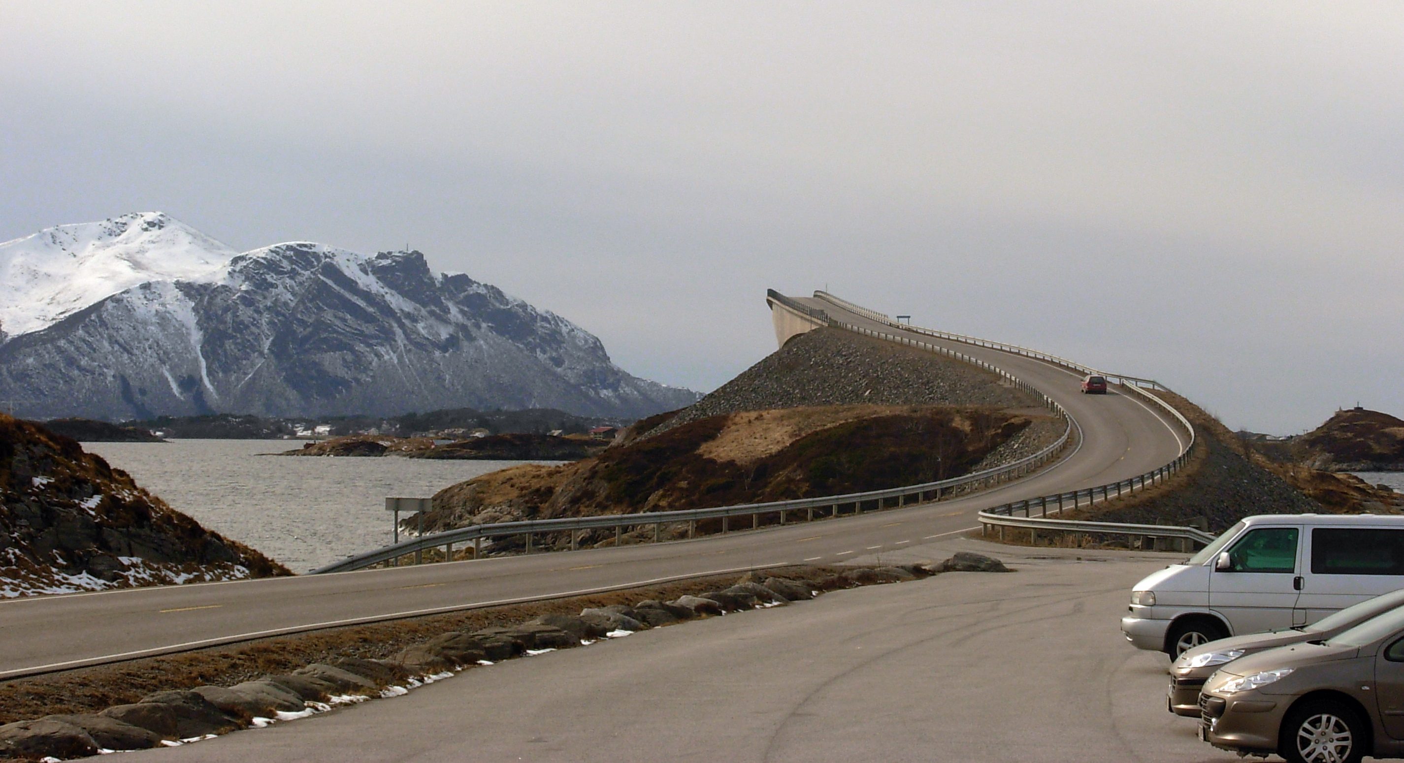 Bridge of unusual form in west Norway